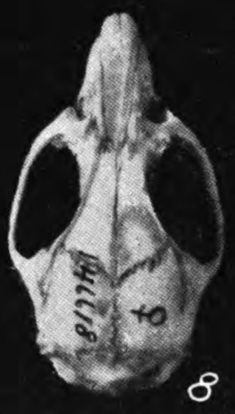 Skull of a specimen of Oryzomys peninsulae in dorsal view.